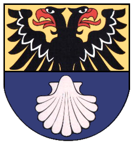 Coat of arms from Niederstedem